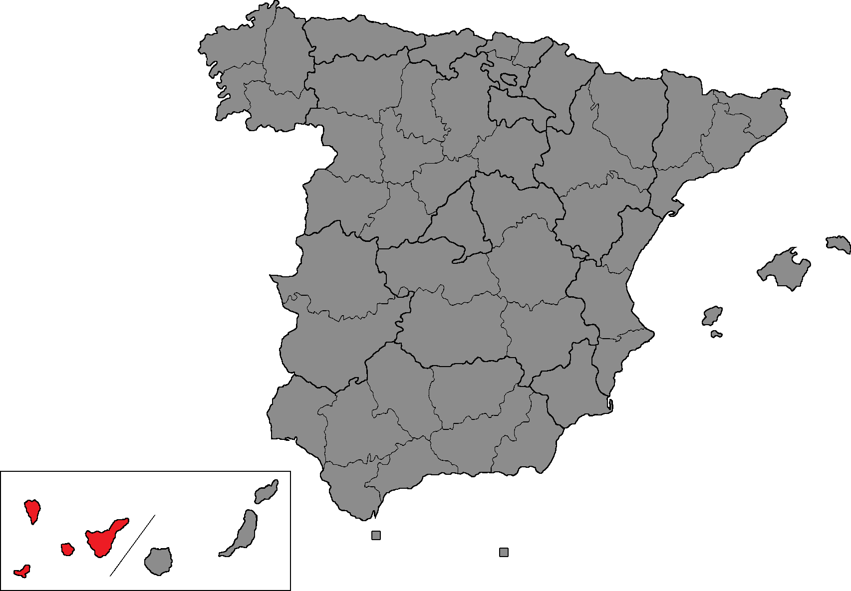 Spanish Congress of Deputies district of Santa Cruz de Tenerife.